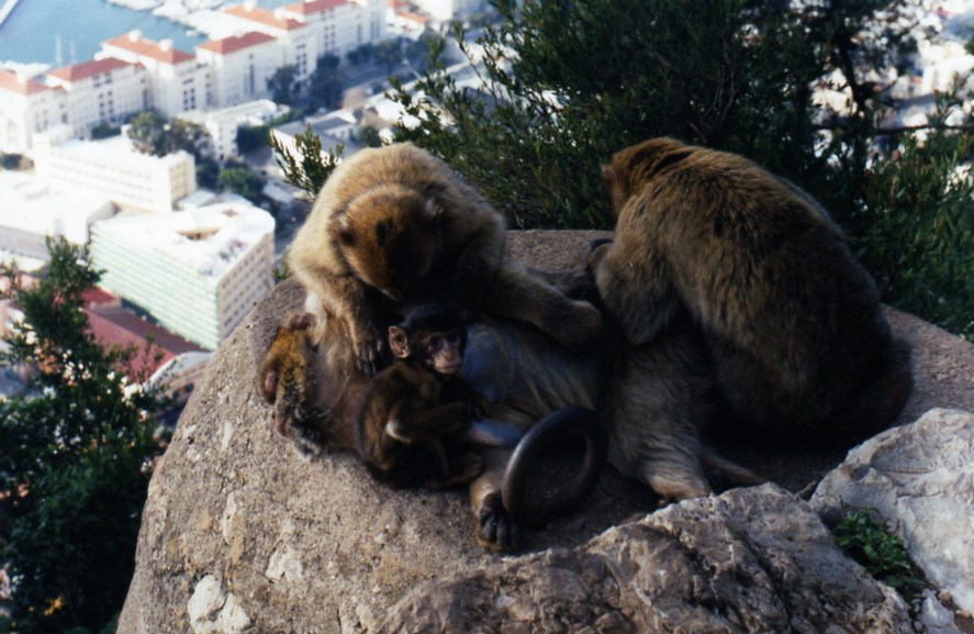 The Rock in the Summertime